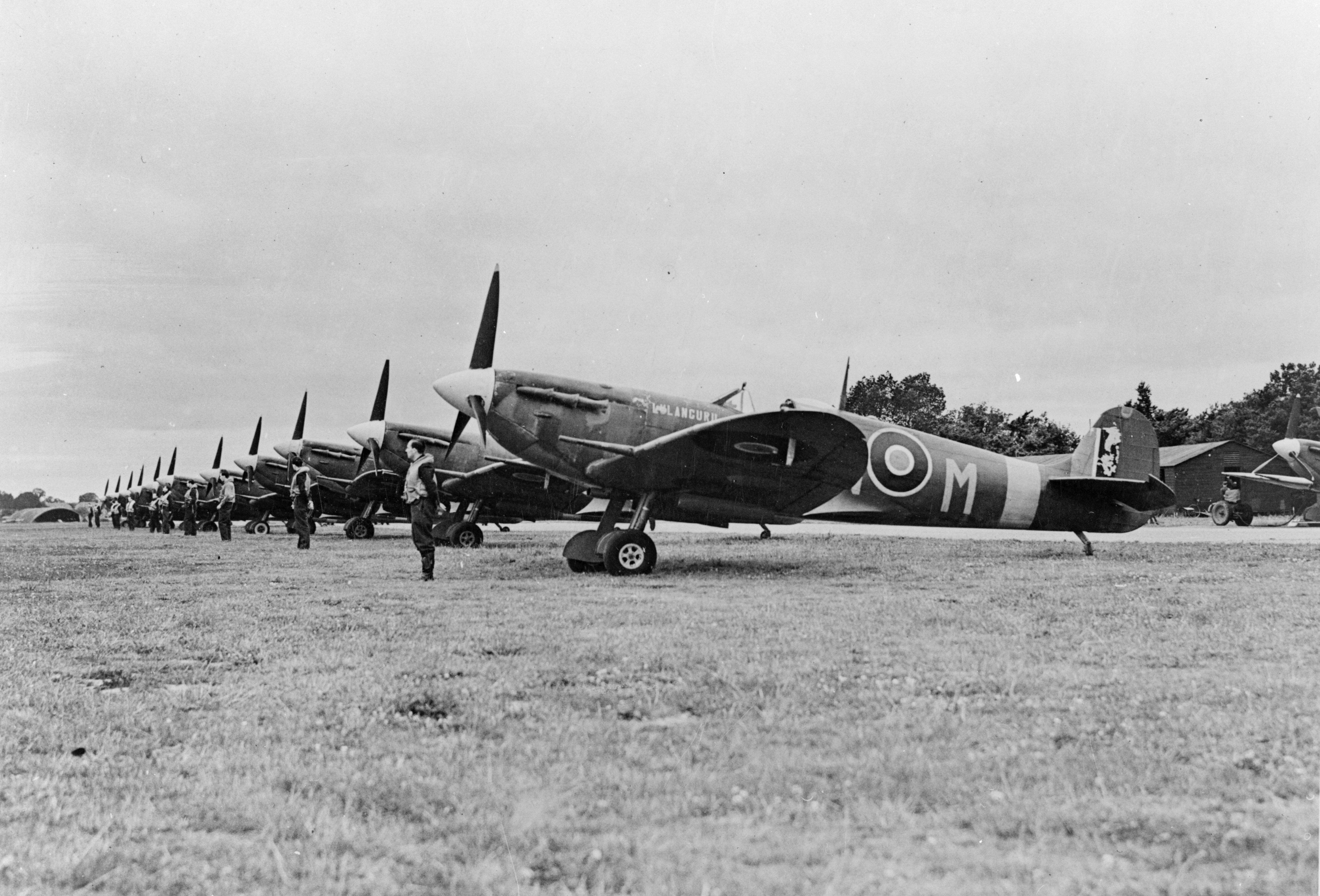 Royal Air Force Fighter Command, 1939-1945. Supermarine Spitfire Mark Vs and pilots of No 350 (Belgian) Squadron RAF lined up at Kenley, Surrey.